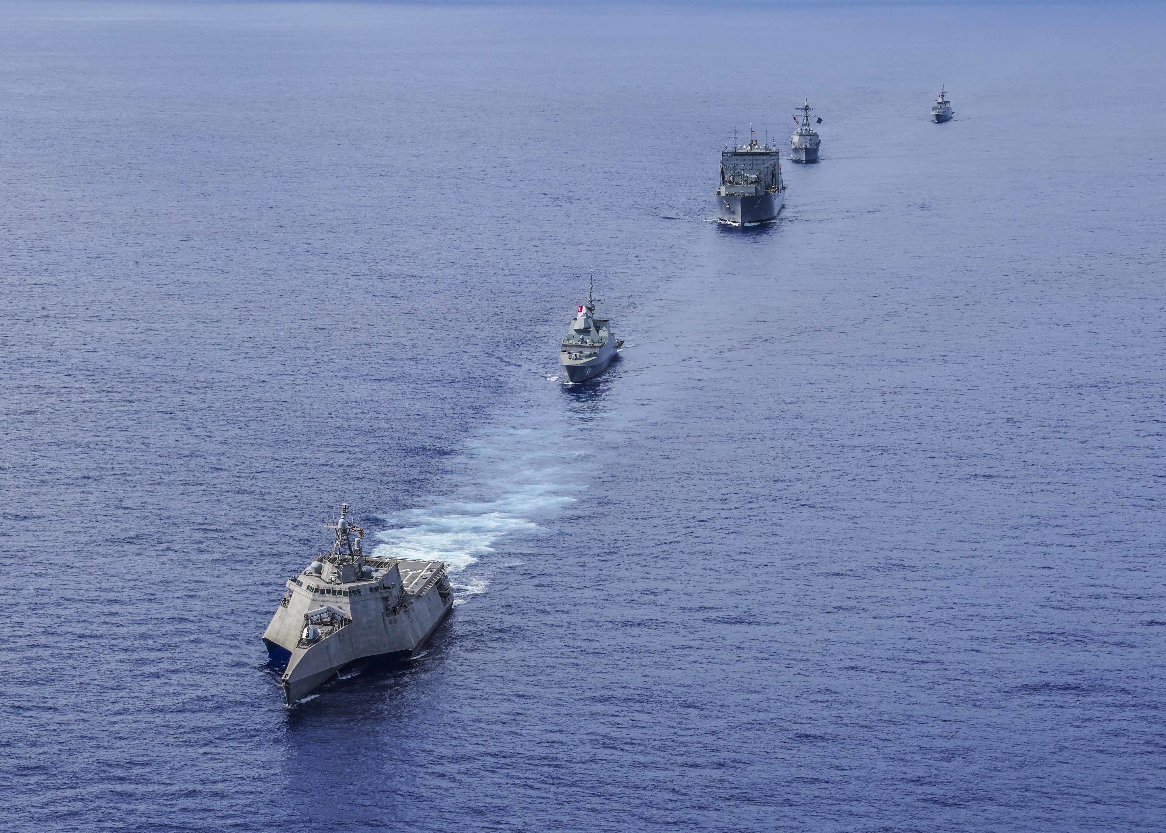 190930-N-FV739-0316 WATERS NEAR GUAM (Sept. 30, 2019) The littoral combat ship USS Gabrielle Giffords (LCS 10) leads a formation followed by the Republic of Singapore Navy (RSN) frigate RSS Formidable (FFS 68), the dry cargo ship USNS Amelia Earhart (T-AKE 6), the guided-missile destroyer USS Momsen (DDG 92) and the RSN frigate RSS Intrepid (FFS 69) during a photo exercise (PHOTOEX) in support of exercise Pacific Griffin 2019. Pacific Griffin is a biennial exercise conducted in the waters near Guam aimed at enhancing combined proficiency at sea while strengthening relationships between the U.S. and Republic of Singapore navies. (U.S. Navy photo by Mass Communication Specialist 2nd Class Christopher Veloicaza/Released)